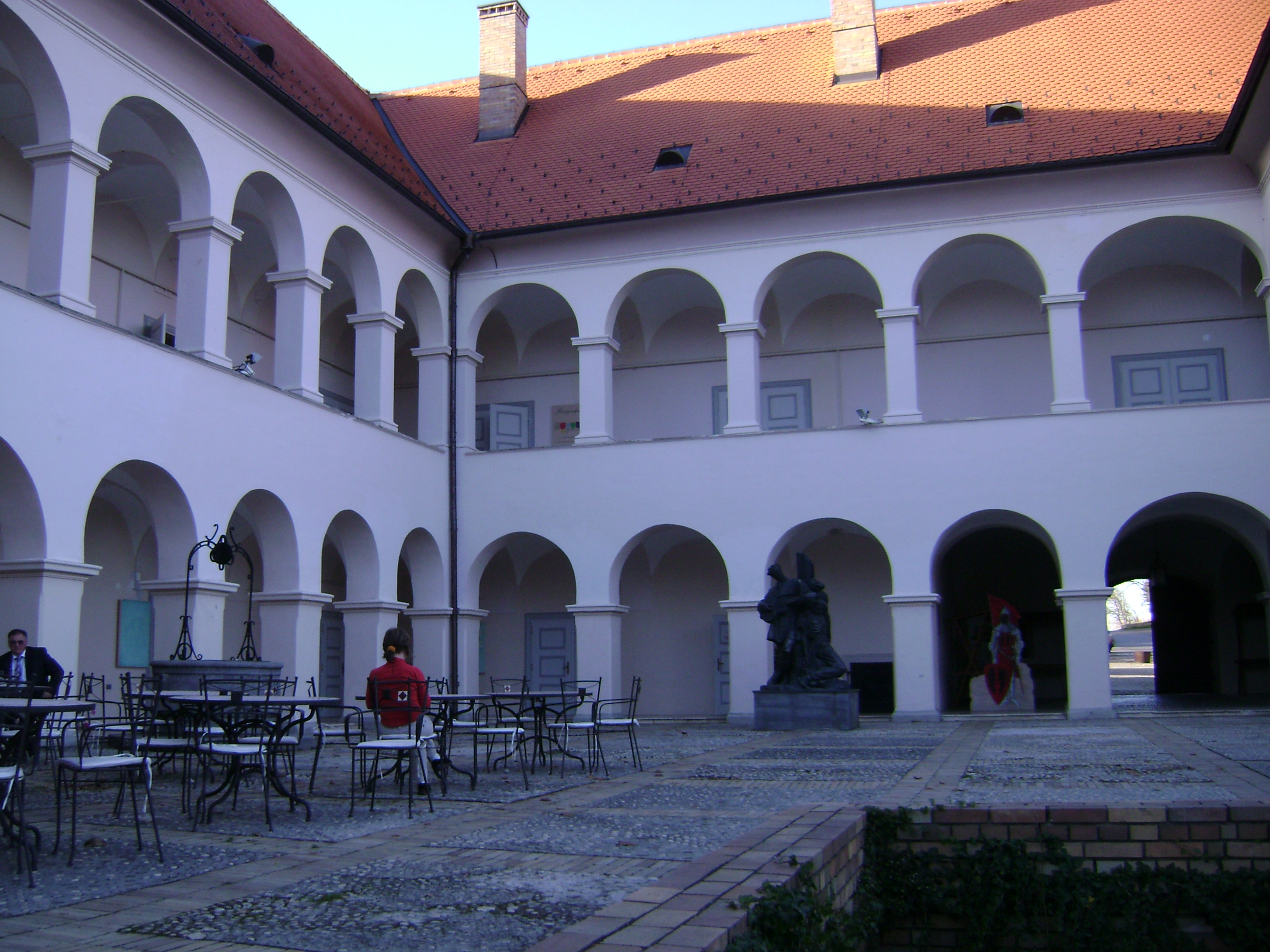 Iner side of Castle Orsic in Gornja Stubica, Croatia